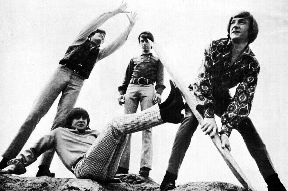 Action photo of the Monkees from a full page ad for their third record album. From left: Mickey Dolenz, Davy Jones, Mike Nesmith, Peter Tork.